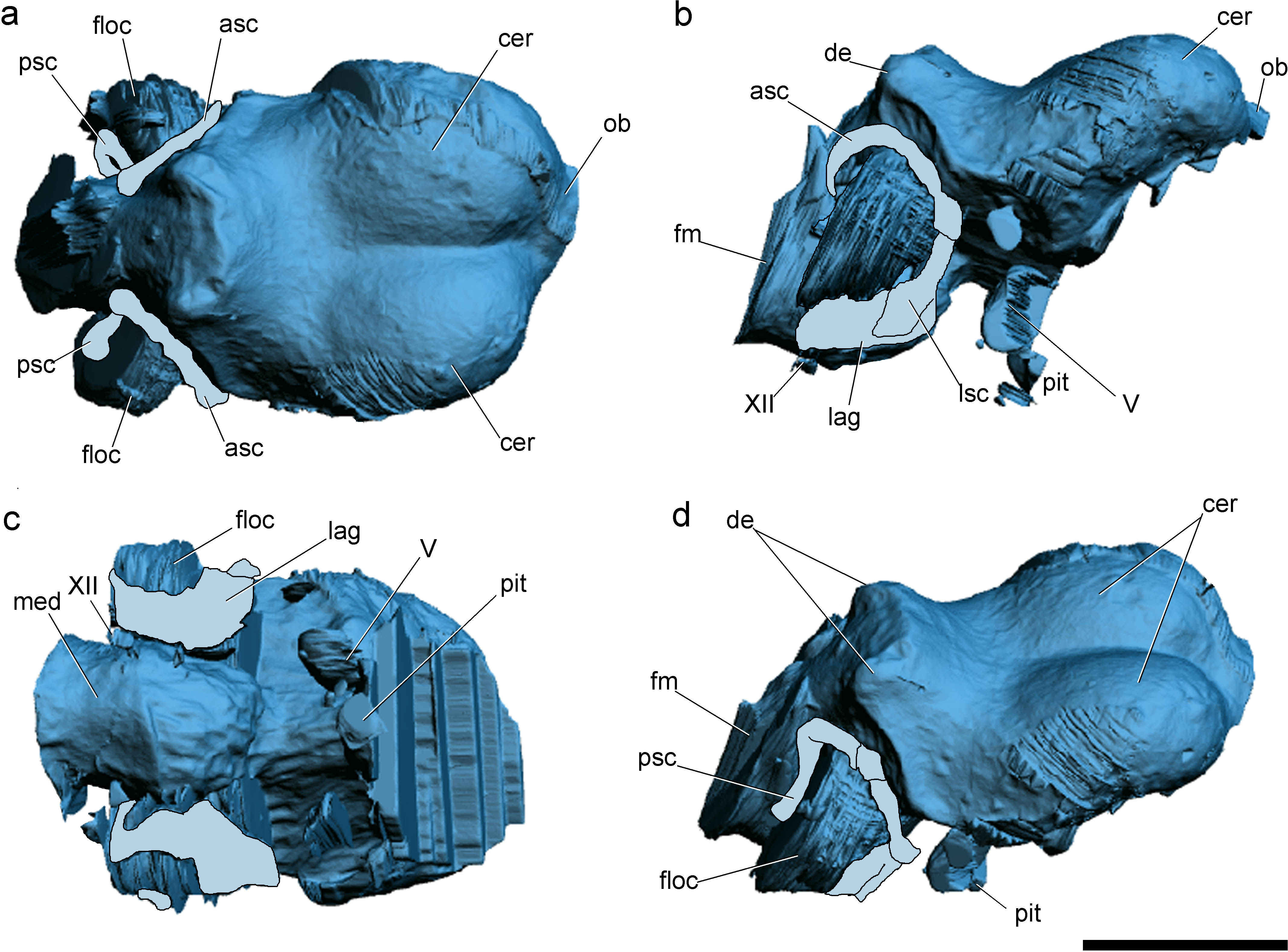 Surface-rendered CT-based reconstructions of the cranial endocast and endosseous labyrinth of the holotype of Allkaruen koi, in dorsal (A), right lateral (B), ventral (C) and dorsolateral (D) views. Abbreviations: asc, anterior semicircular canal; cer, cerebral hemisphere; de, dorsal expansion ; floc, flocculus; fm, foramen magnum; lag, lagena; med, medulla oblongata; lsc, lateral semicircular canal; ob, olfactory bulb; pit, pituitary body; psc, posterior semicircular canal; V, XII, cranial nerves. Scale bar is 1 cm.